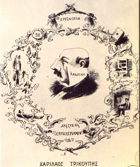 Satirical poster depicting Charilaos Trikoupis (1893)